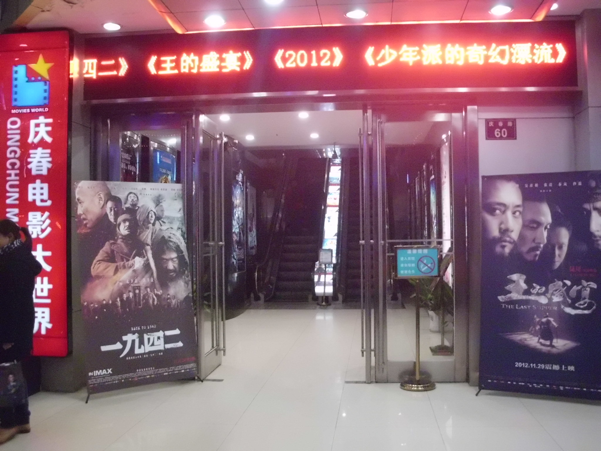 Qingchun Movie World